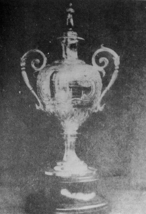 The trophy that Argentine Football Association awarded to Alumni Athletic Club, in recognition of the titles won in 1900, 1901 and 1902 by the team.